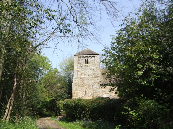 West tower of St Leonard's parish church, Linley, Shropshire, seen from the south